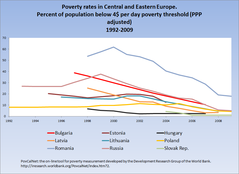 Graph showing poverty rates in Central and Eastern Europe over time.